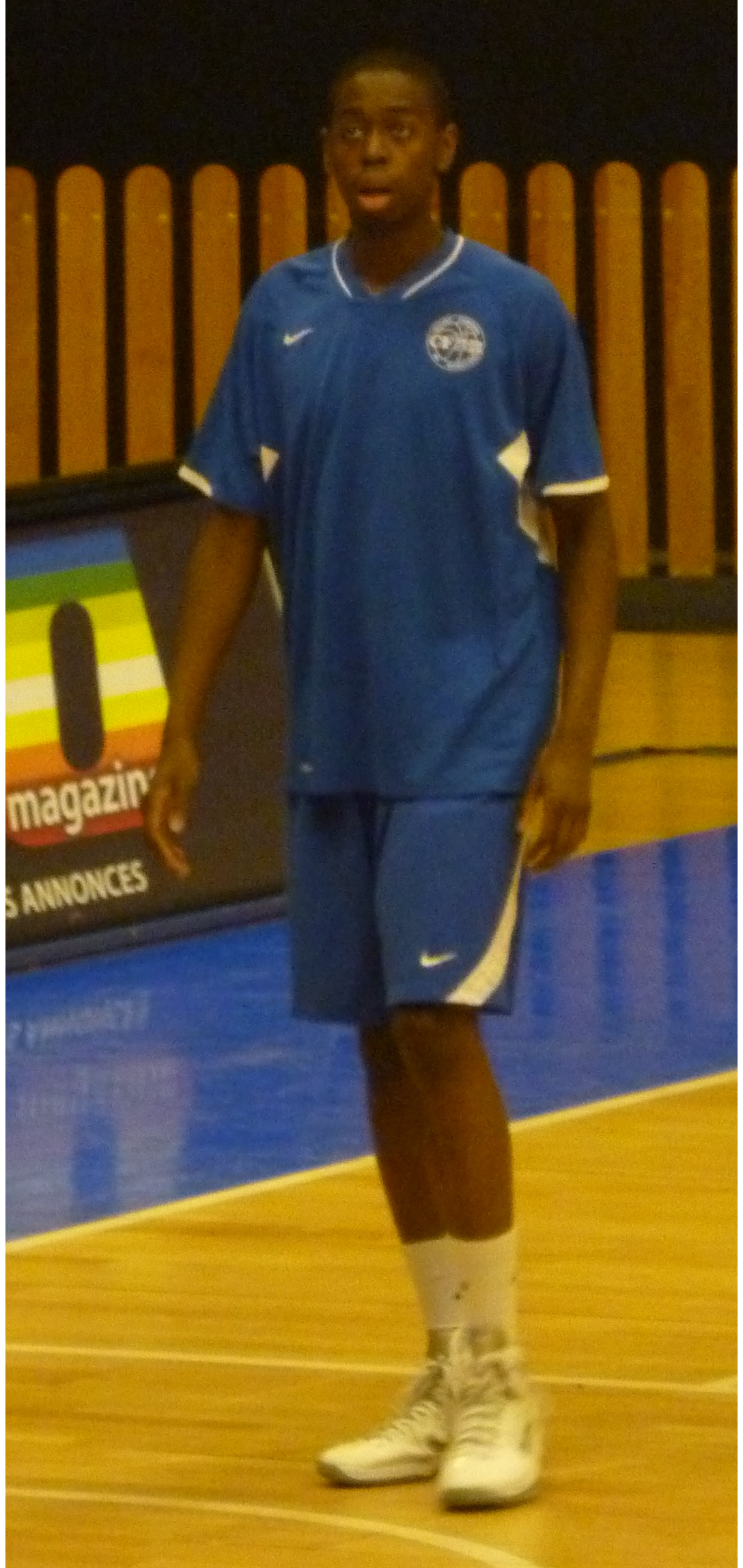 Boris Dallo, French basketball player. Taken on Feb 17th at the Palais de sports de Clermont-Ferrand during a 3rd division game between Stade clermontois basket Auvergne (home team) and Centre fédéral (Dallo's team).